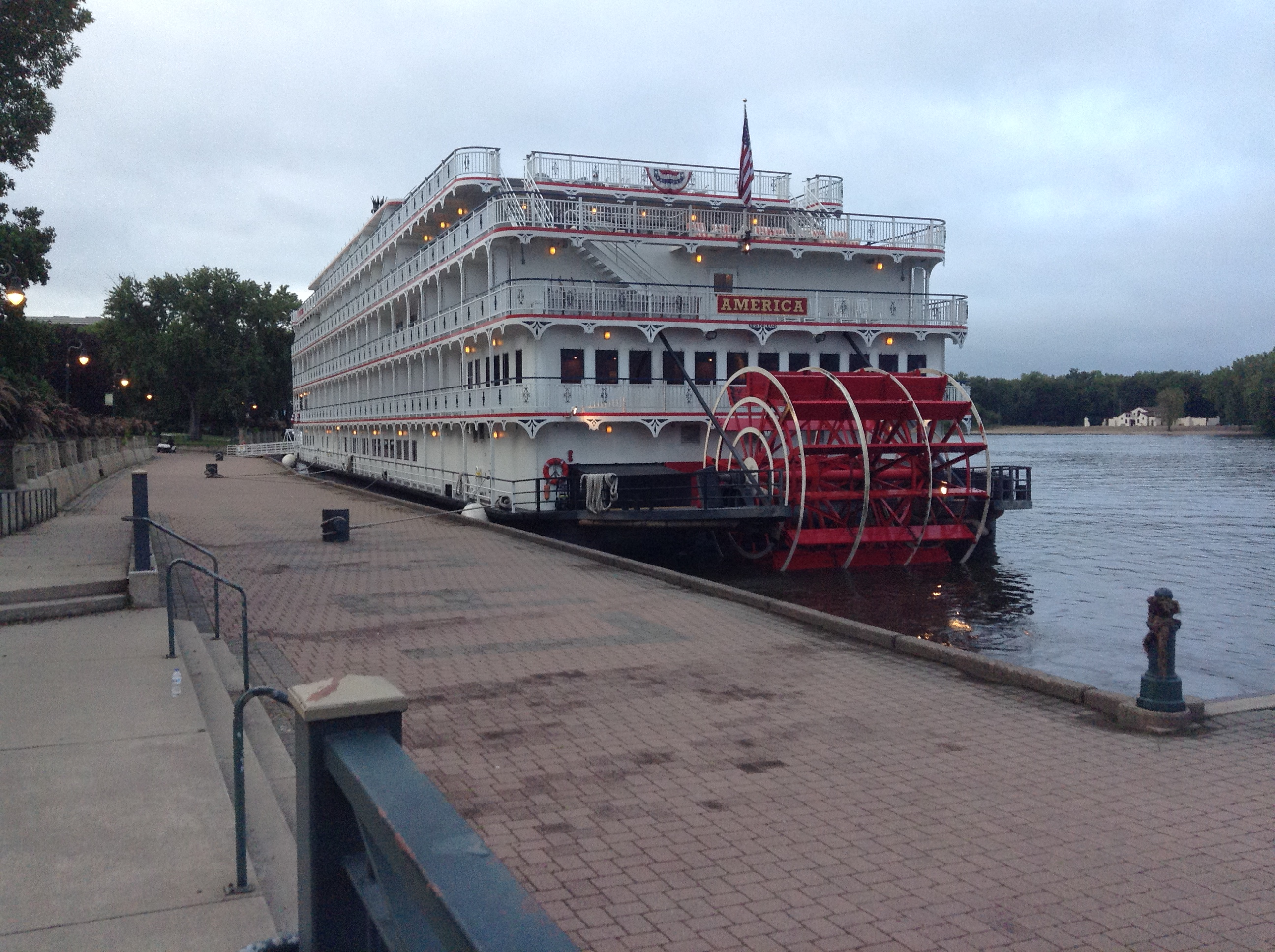 American Queen at Riverside Park